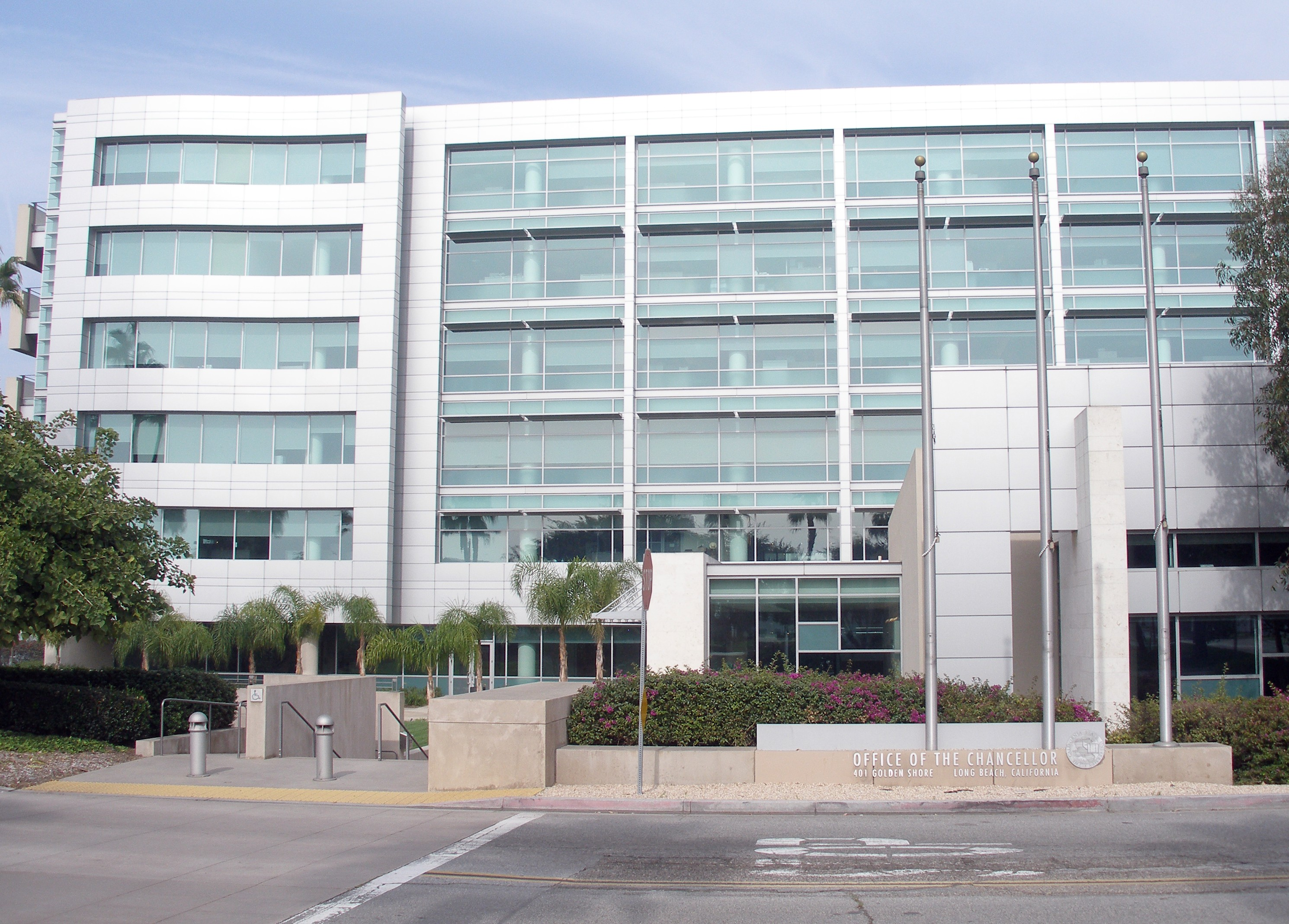 Office of the Chancellor, California State University, at 401 Golden Shore in Long Beach, California.